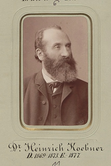 Heinrich Köbner (1838-1904)